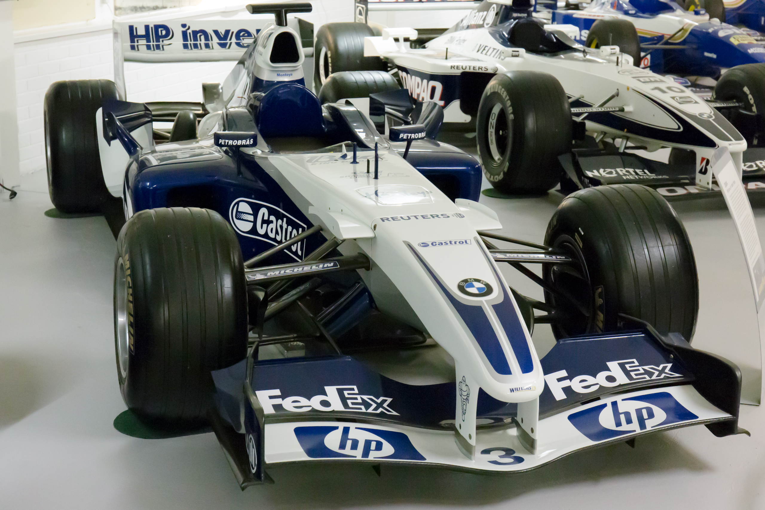 2004 Williams FW26 conventional nose version (#3 Juan Pablo Montoya)